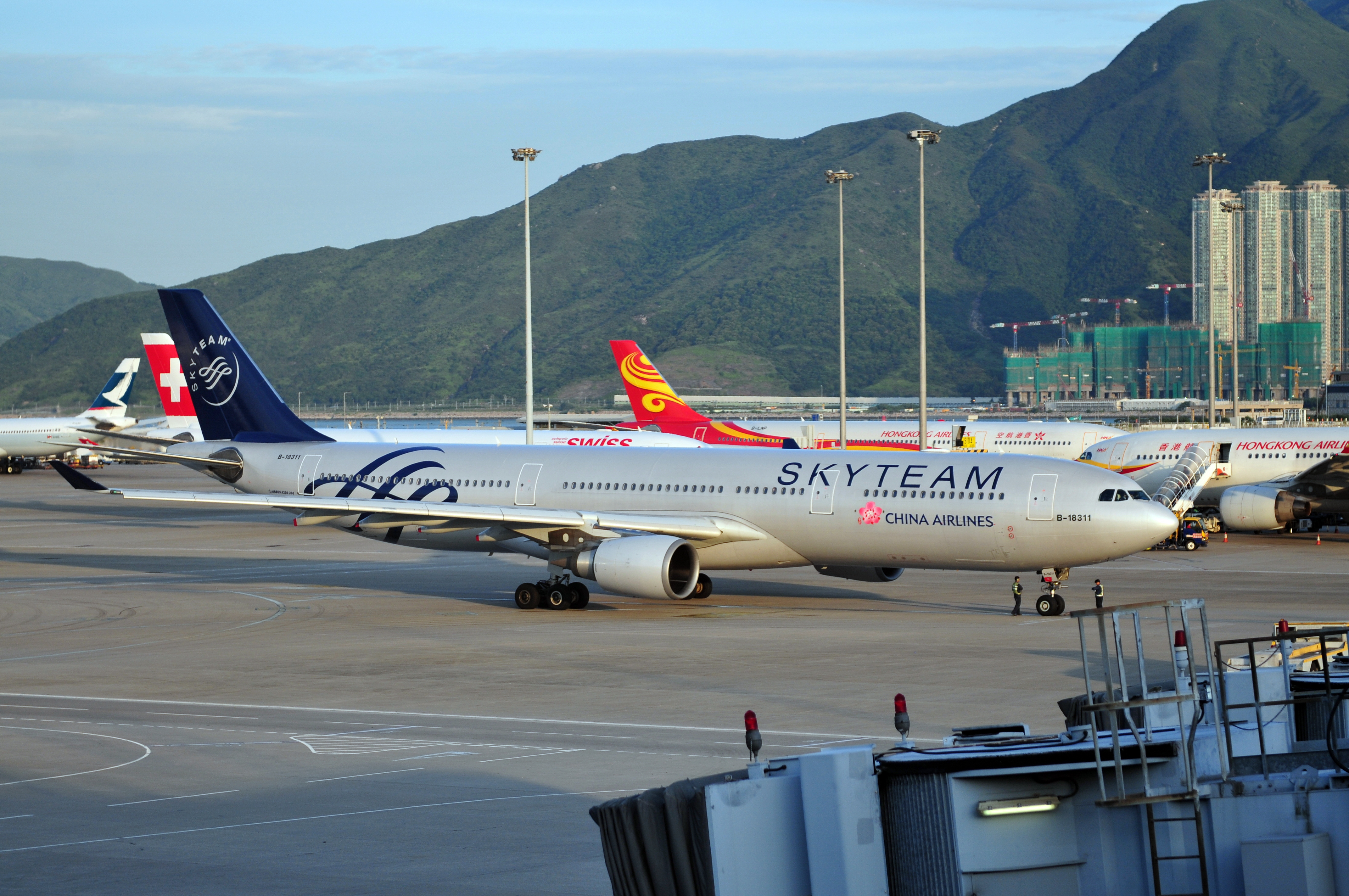 Airbus A330-302 B-18311 from SkyTeam (China Airlines) in Hong Kong